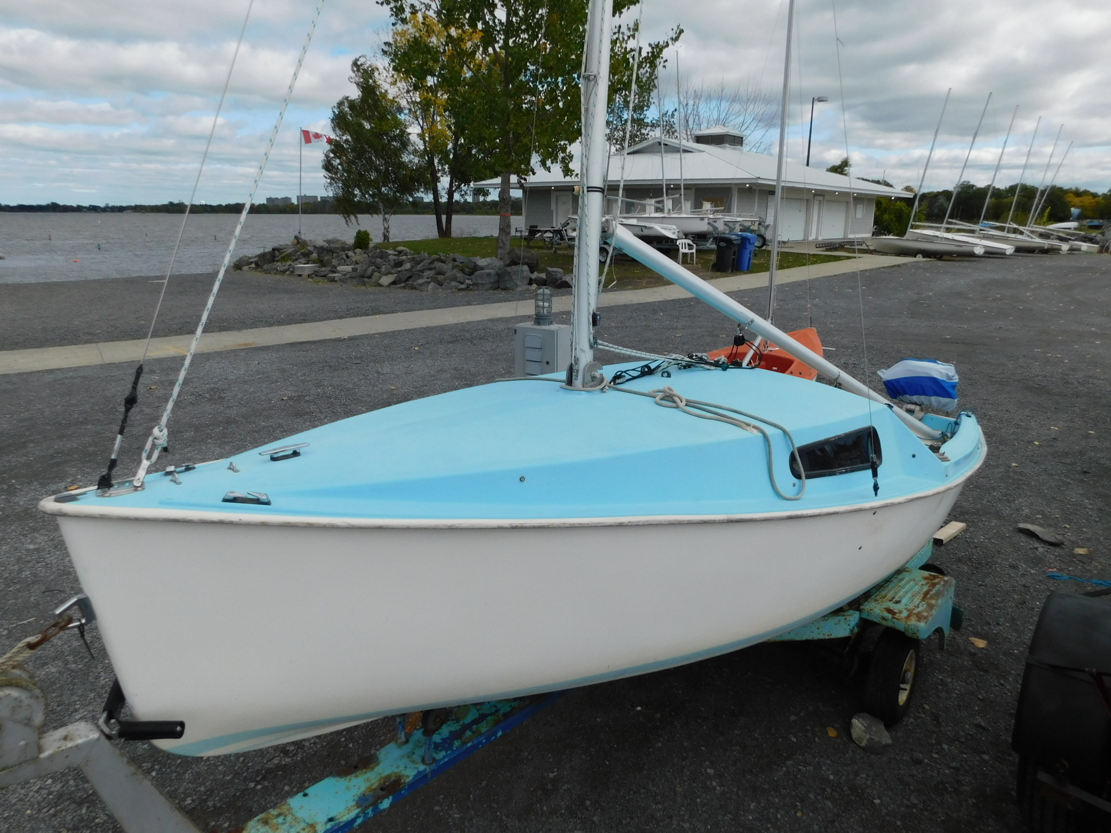 A Sirocco 15 sailboat named Debbie.